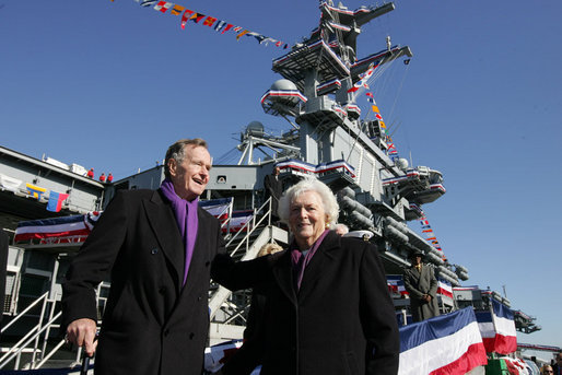 Former President George H. W. Bush and Mrs. Barbara Bush prepare to leave the USS George H. W. Bush (CVN 77) aircraft carrier Saturday, Jan 10, 2009 in Norfolk, Va., following the commissioning ceremony for the ship named in his honor. White House photo by Joyce N. Boghosian